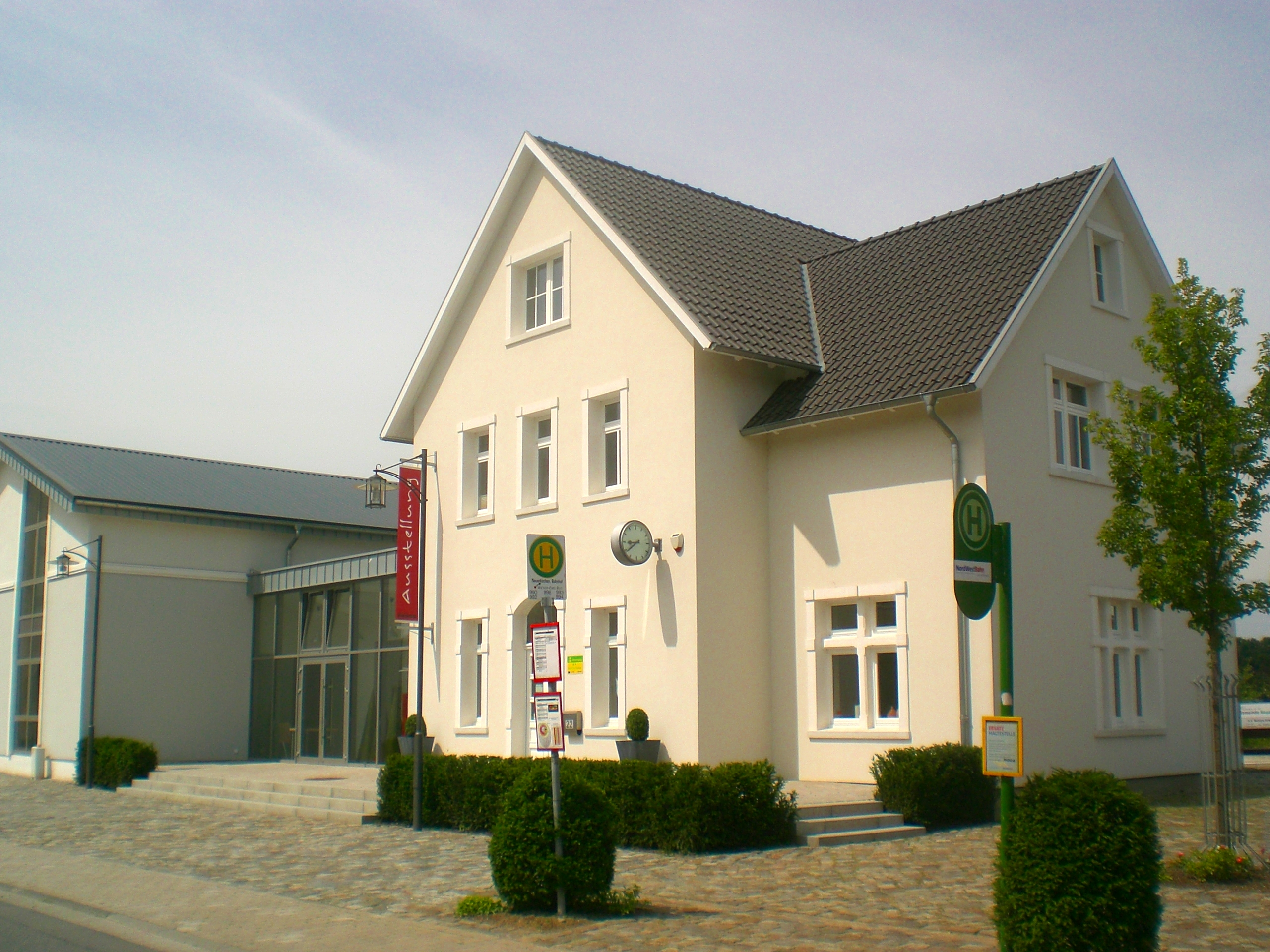 Cultural centre in the former train station of Neuenkirchen, Neuenkirchen-Vörden, Lower Saxony, Germany